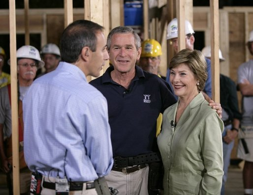 NBC "Today Show" host Matt Lauer talks with President George W. Bush and Laura Bush Tuesday, Oct. 11, 2005, on the construction site of a Habitat for Humanity home in Covington, La., a hurricane-devastated town just north of New Orleans where the nonprofit is building houses for those displaced by Katrina. White House photo by Eric Draper